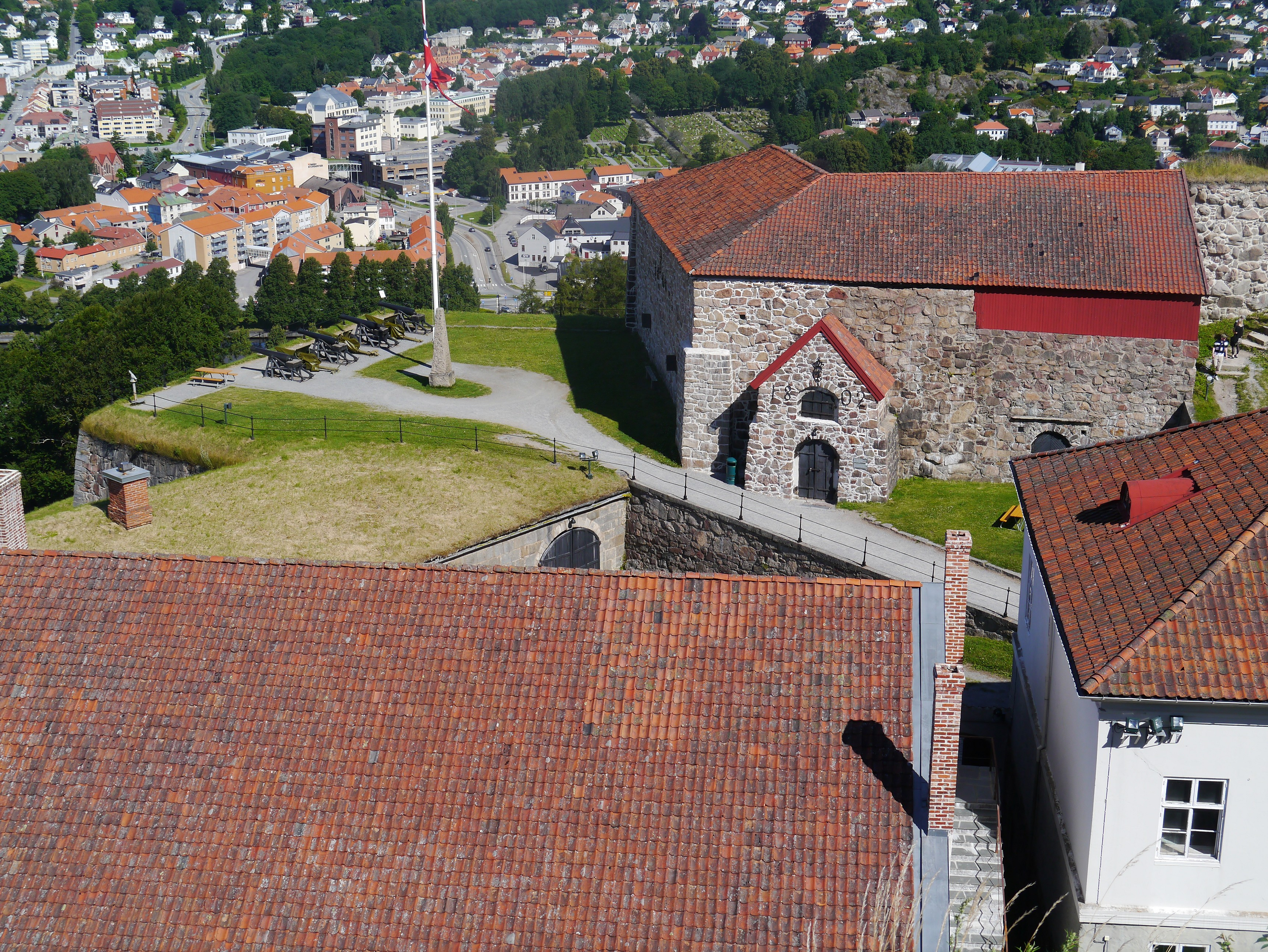 Fredriksten Fortress, Halden, Östfold County, Southern Norway